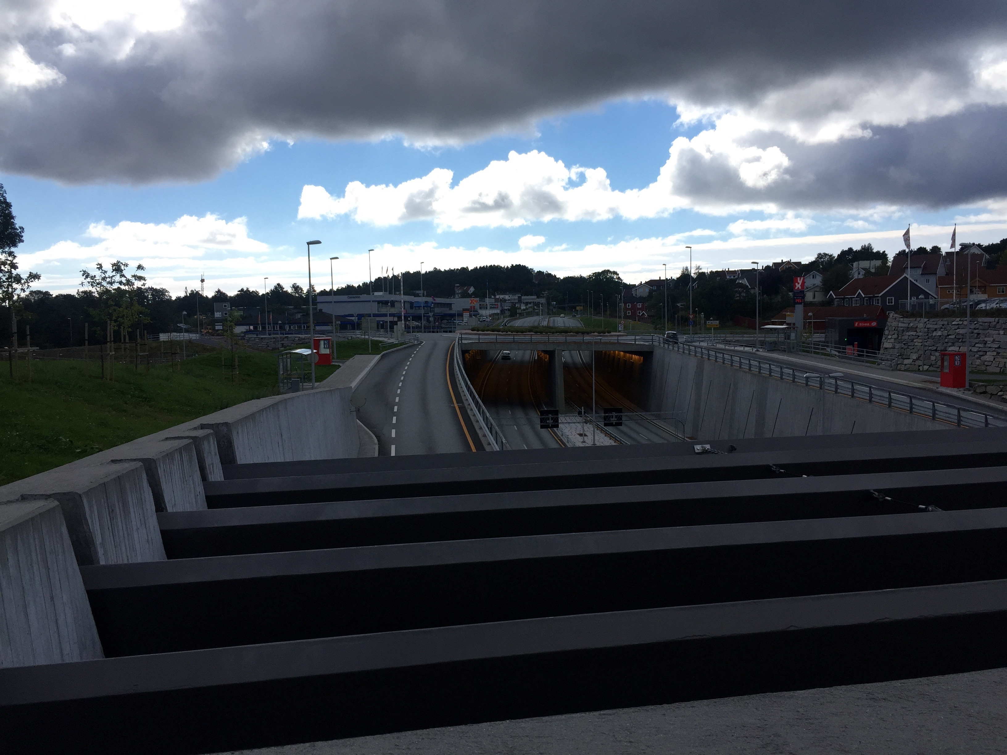 Vågsbygdveien